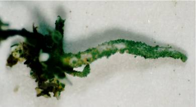 Cladonia macilenta var. bacillaris